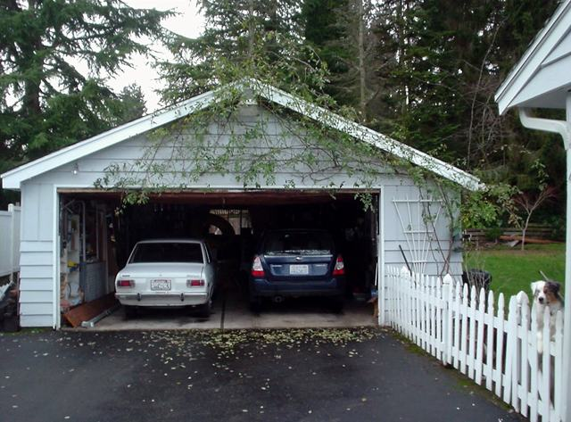 Typical America 'Two-car Garage' (detached type)